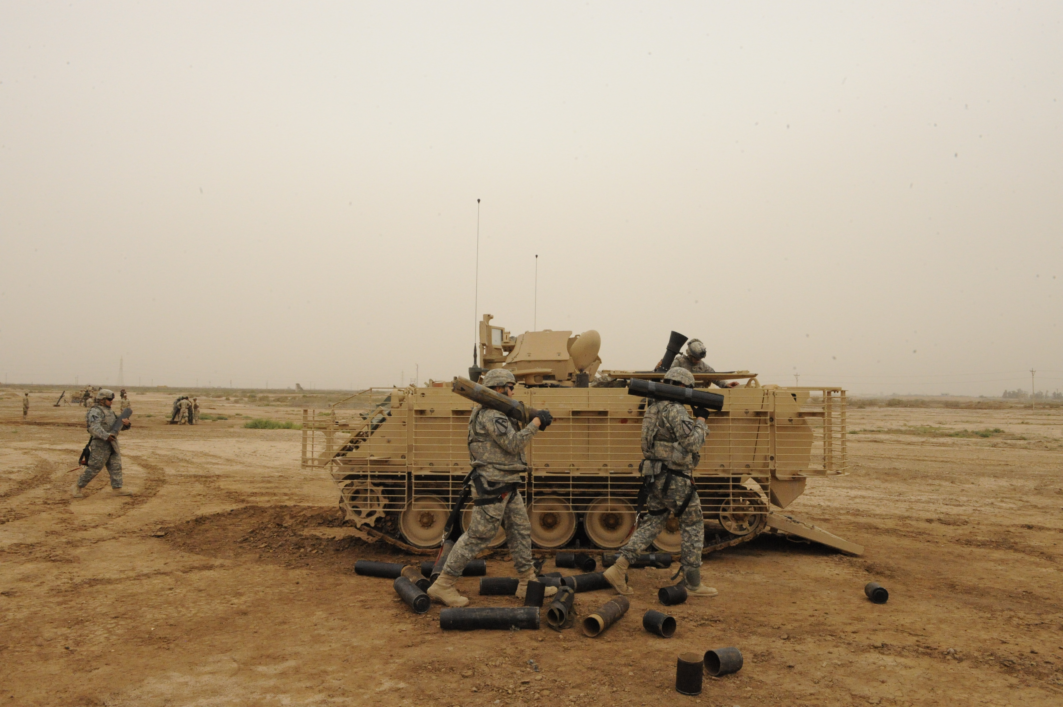 U.S. soldiers from 1st Battalion, 5th Cavalry Regiment, 1st Brigade Combat Team, 1st Cavalry Division, fire the M120 Mortar system out of a M113 Armored Personal Carrier (APC) on Forward Operating Base Taji, Baghdad, Iraq, April 25, 2009.